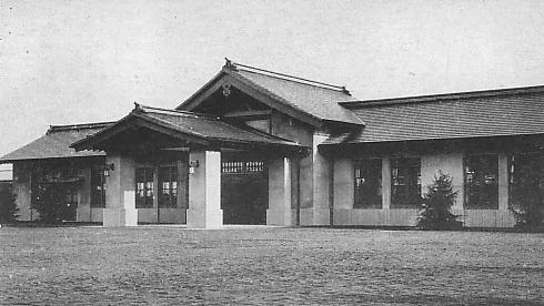 Higashi-Asakawa Station